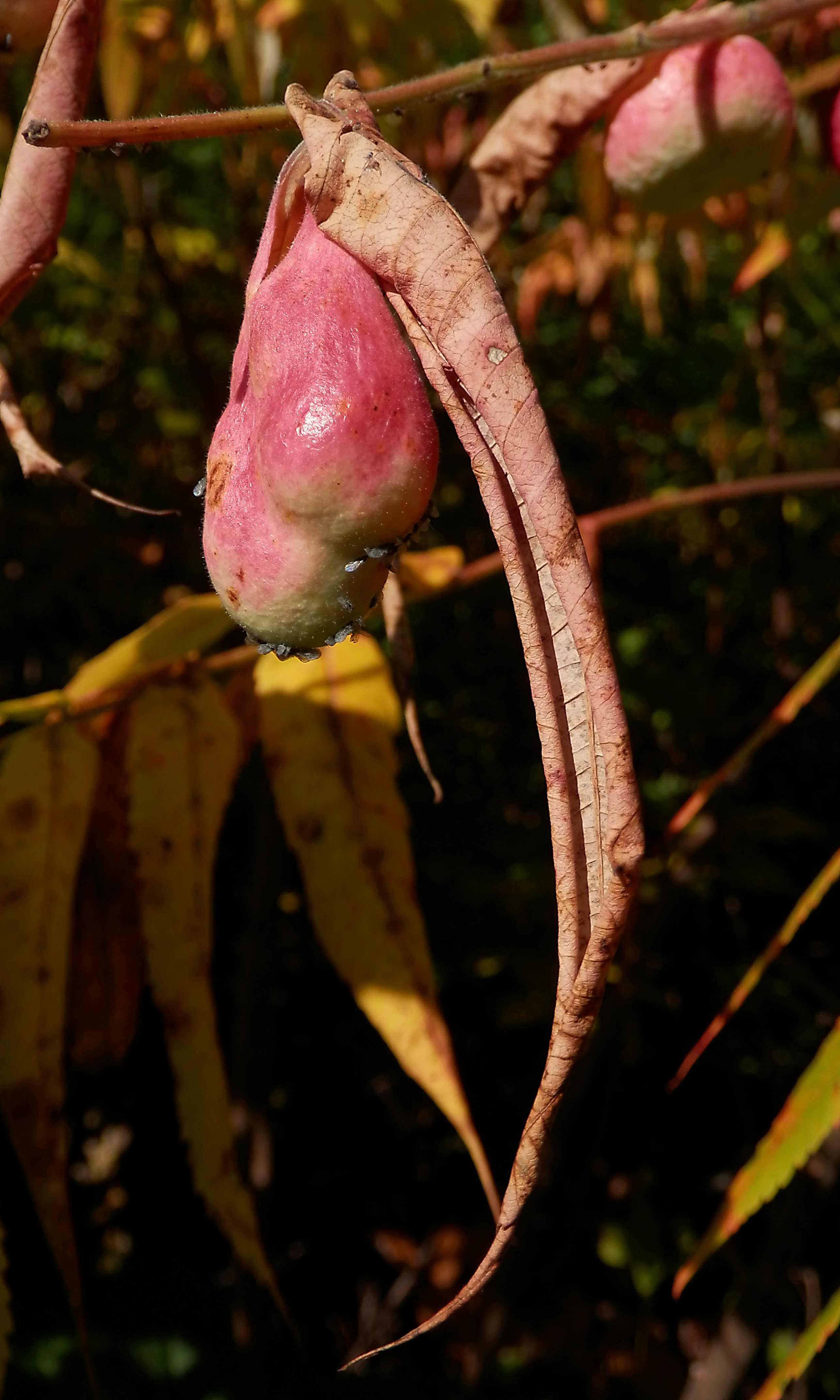 Sumac leaf gall caused by staghorn sumac aphid (Melaphis rhois) on staghorn sumac (Rhus typhina) in Gatineau, Quebec, Canada.